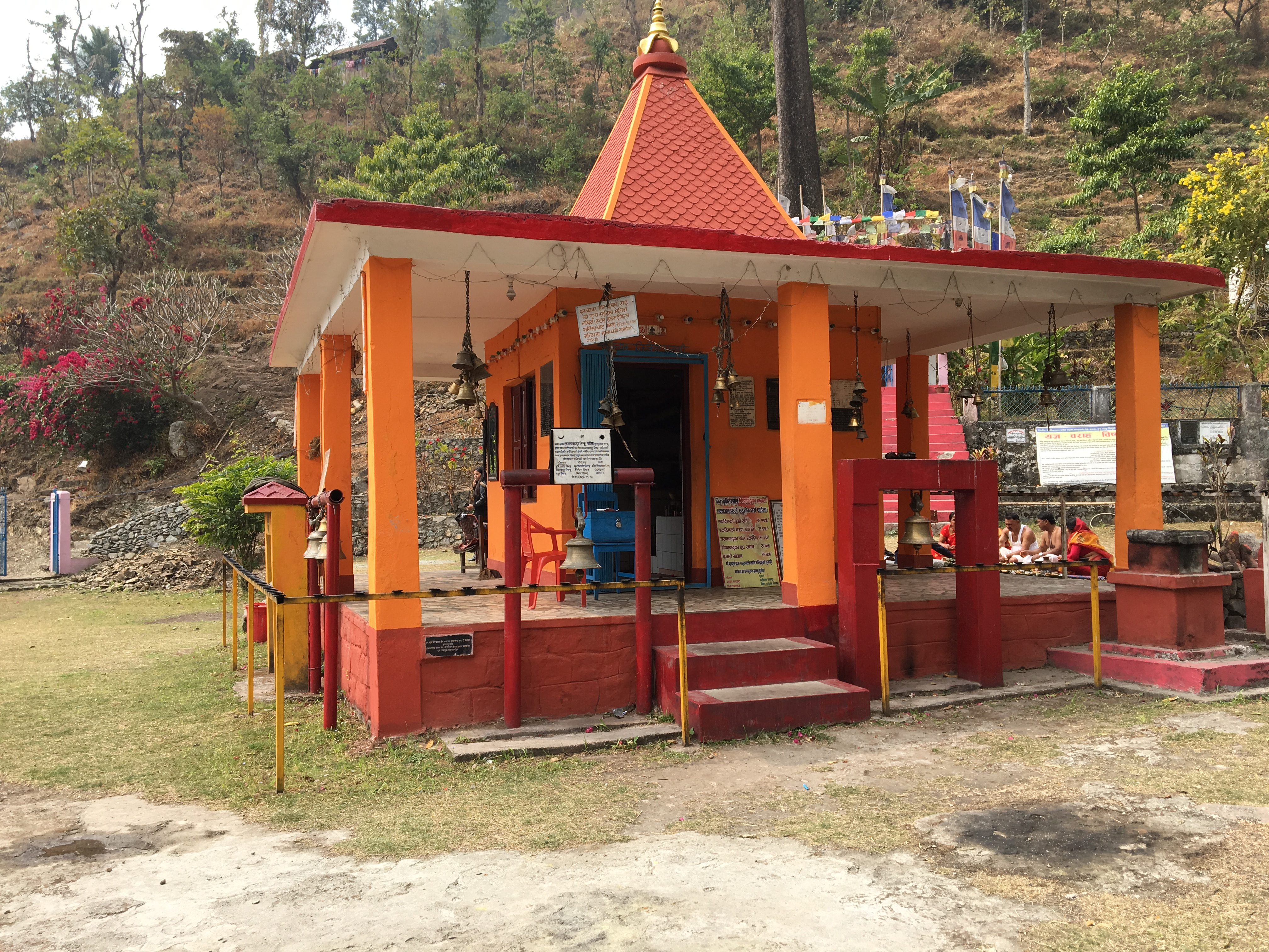 Bishnu Paduka